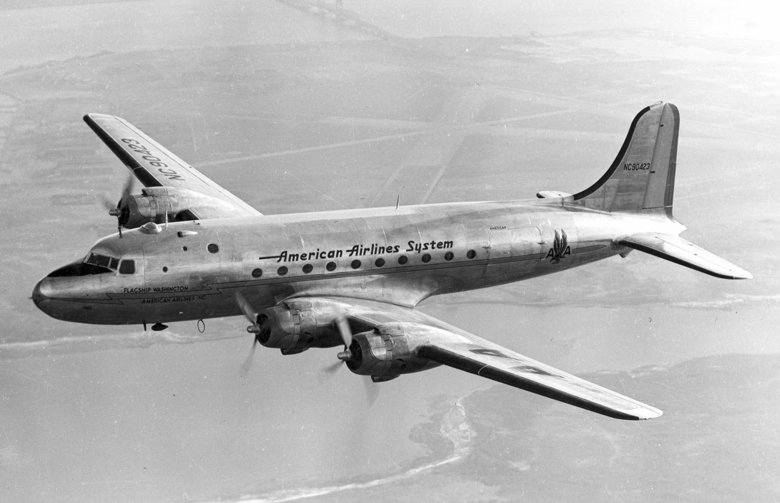 Catalog #: 01_00091391 Title: Douglas, C-54B, Skymaster Corporation Name: Douglas Aircraft Designation: C-54B Official Nickname: Skymaster Tags: Douglas, C-54B, Skymaster Additional Information: USA, Originally built in 1943 for USAAF as 43-17192. To American Airlines in 1945. Eventually written off in Columbia in 1973 flying for Avianca. Repository: San Diego Air and Space Museum Archive